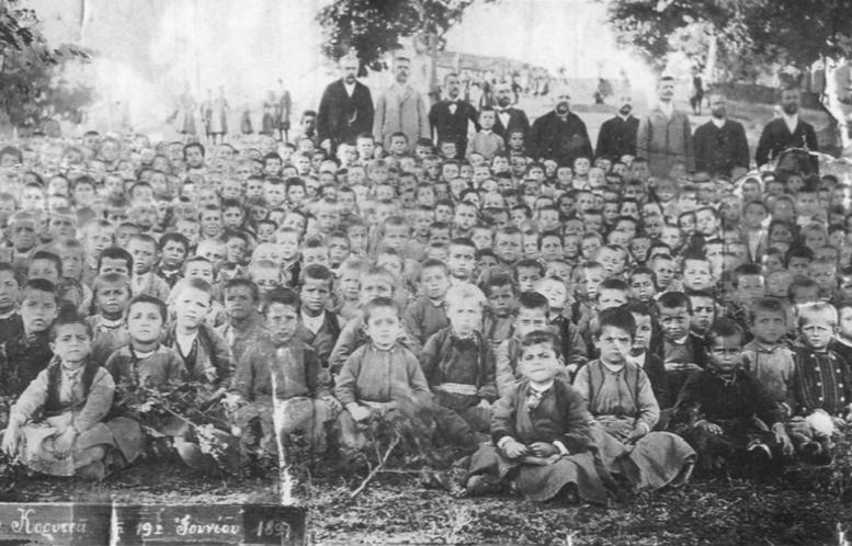 Pupils and teachers of the Greek Urban School in Korce/Korytsa, 1897.